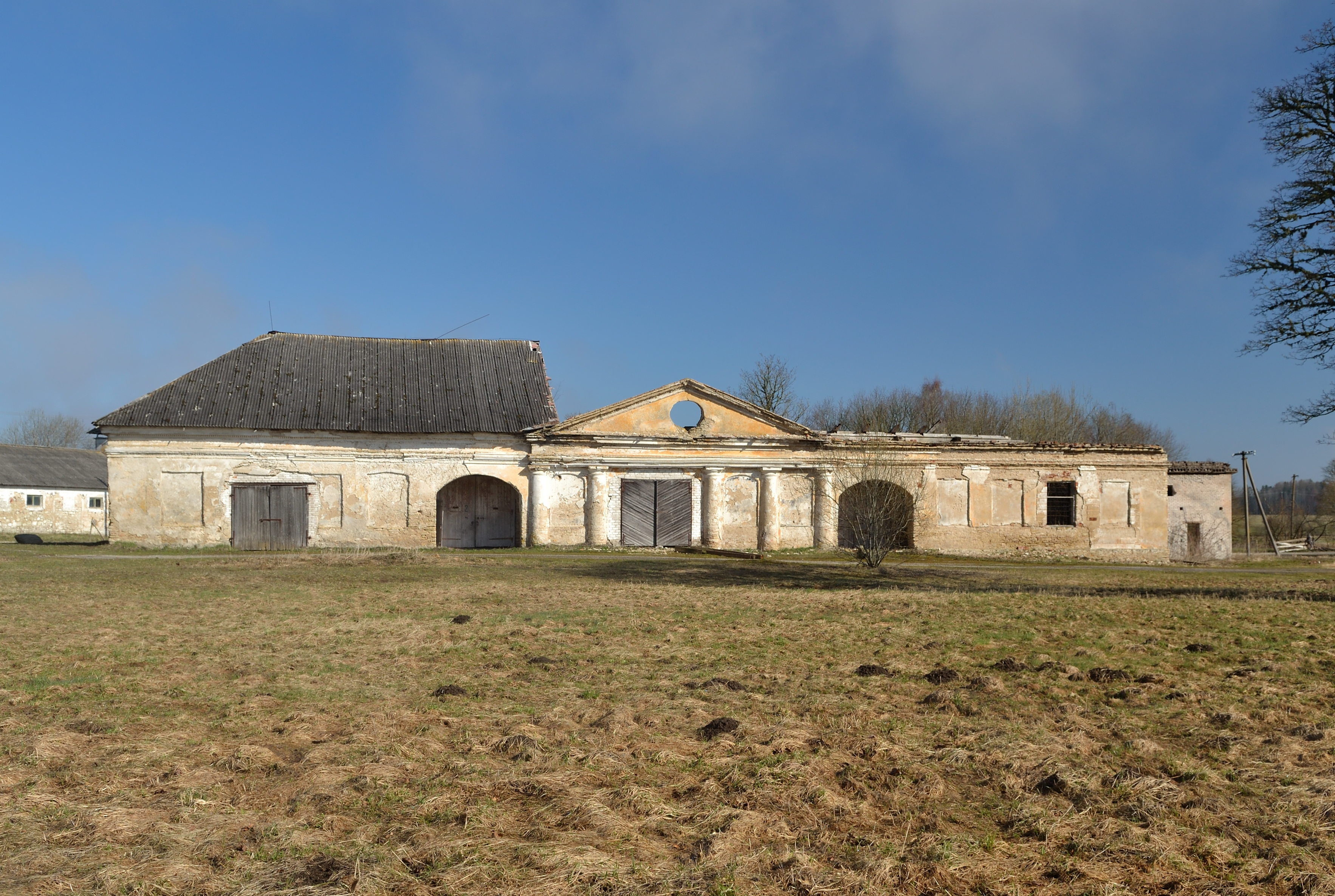 Võhmuta manor coach house